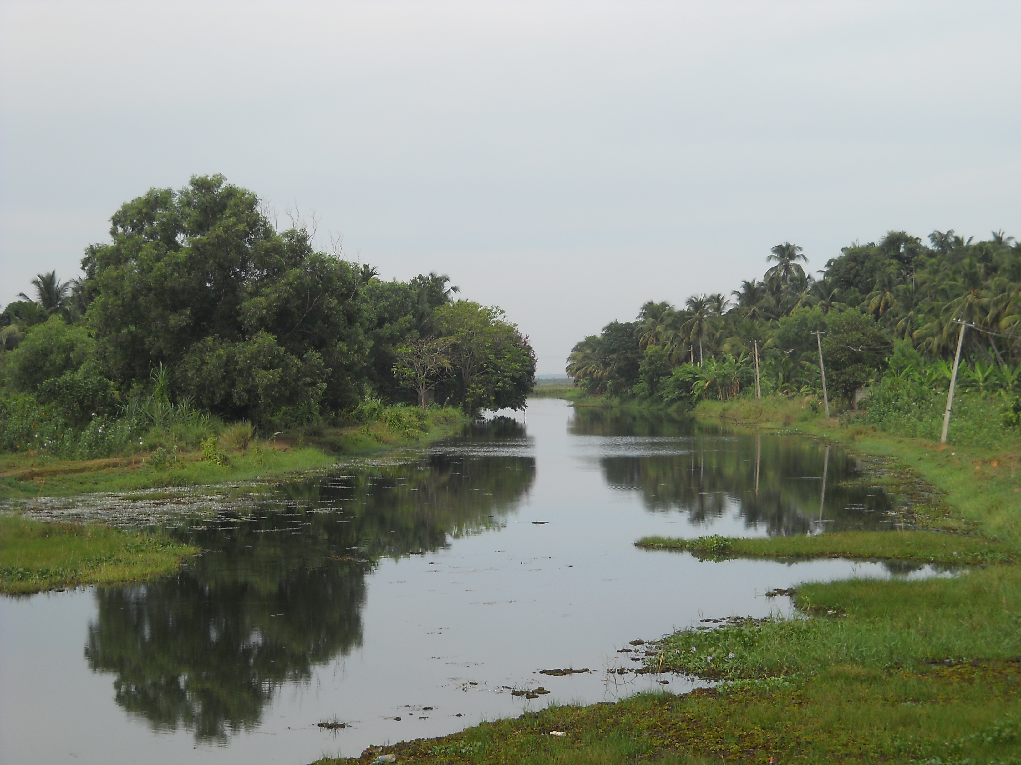 puzhakkal river tourism